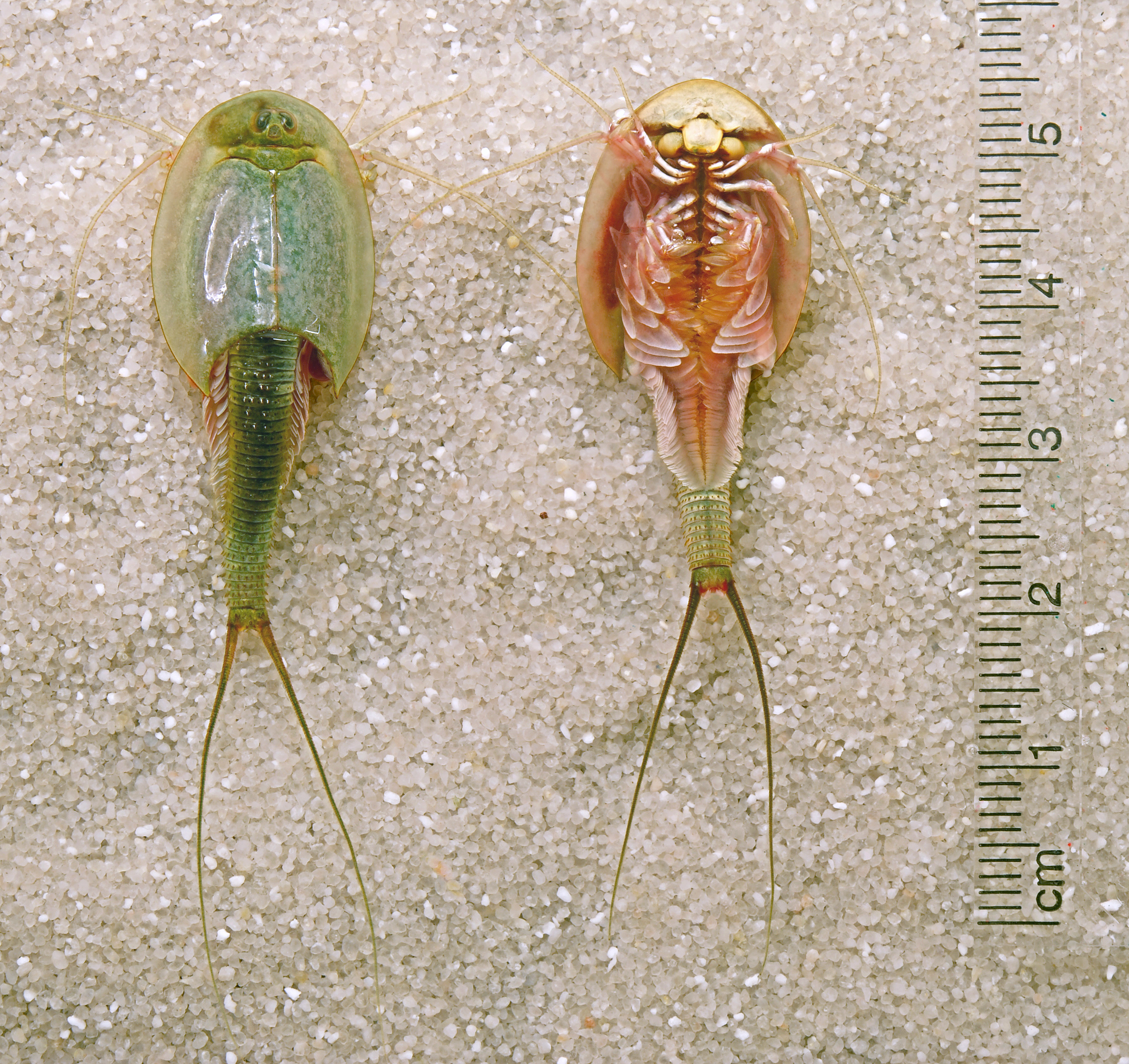 Triops longicaudatus. Ventral and dorsal view of adult specimens. Both are offsprings in an aquarium and died naturally. The picture is a fusion with five different light exposure (130/10, 60/10, 30/10, 16/10, 10/13). Nikon D40x with AF-S Micro NIKKOR 60mm 1:2.8 G.